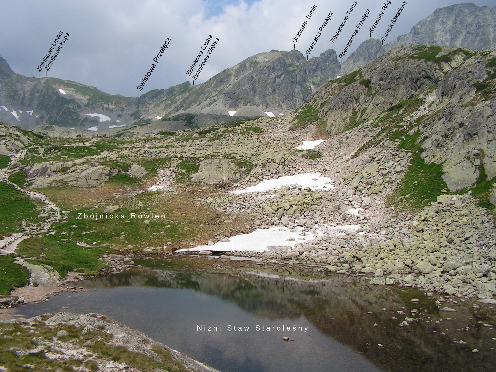 Svišťové sedlo and its surroundings from Veľká Studená dolina (with polish names)